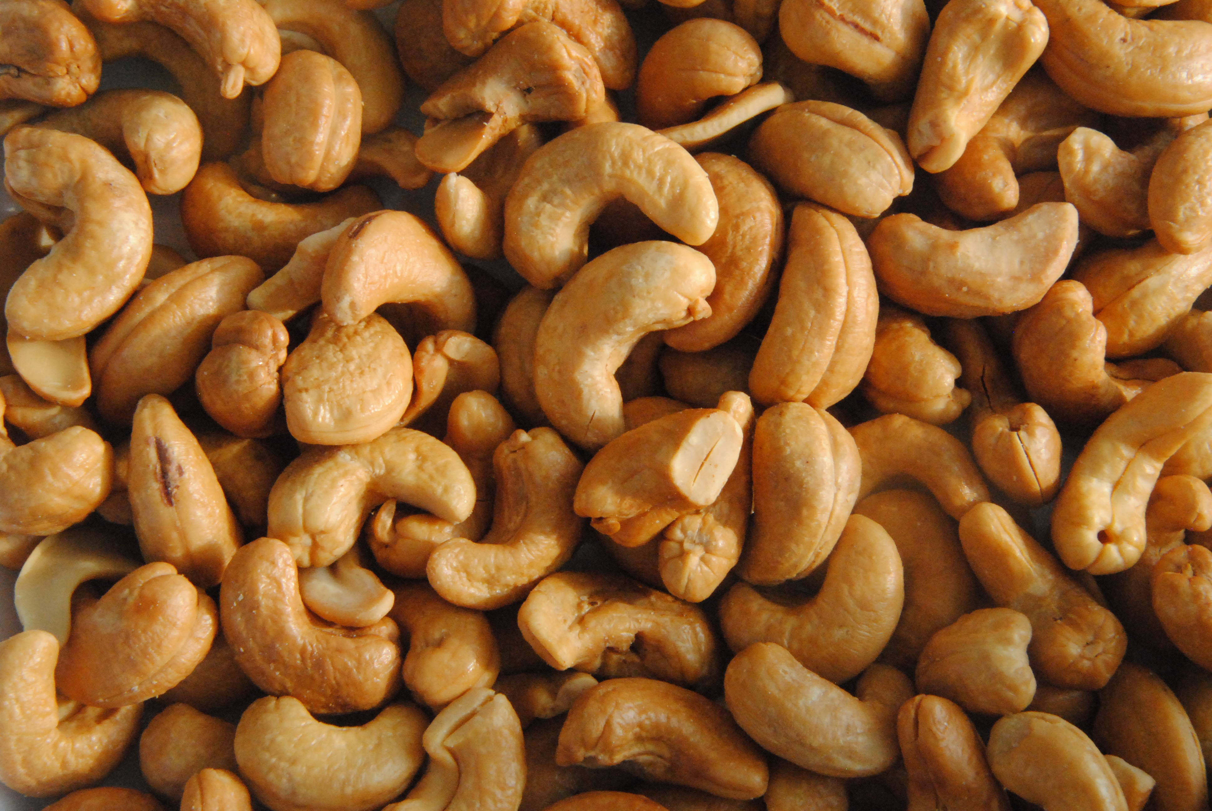 Pile of cashew nuts.